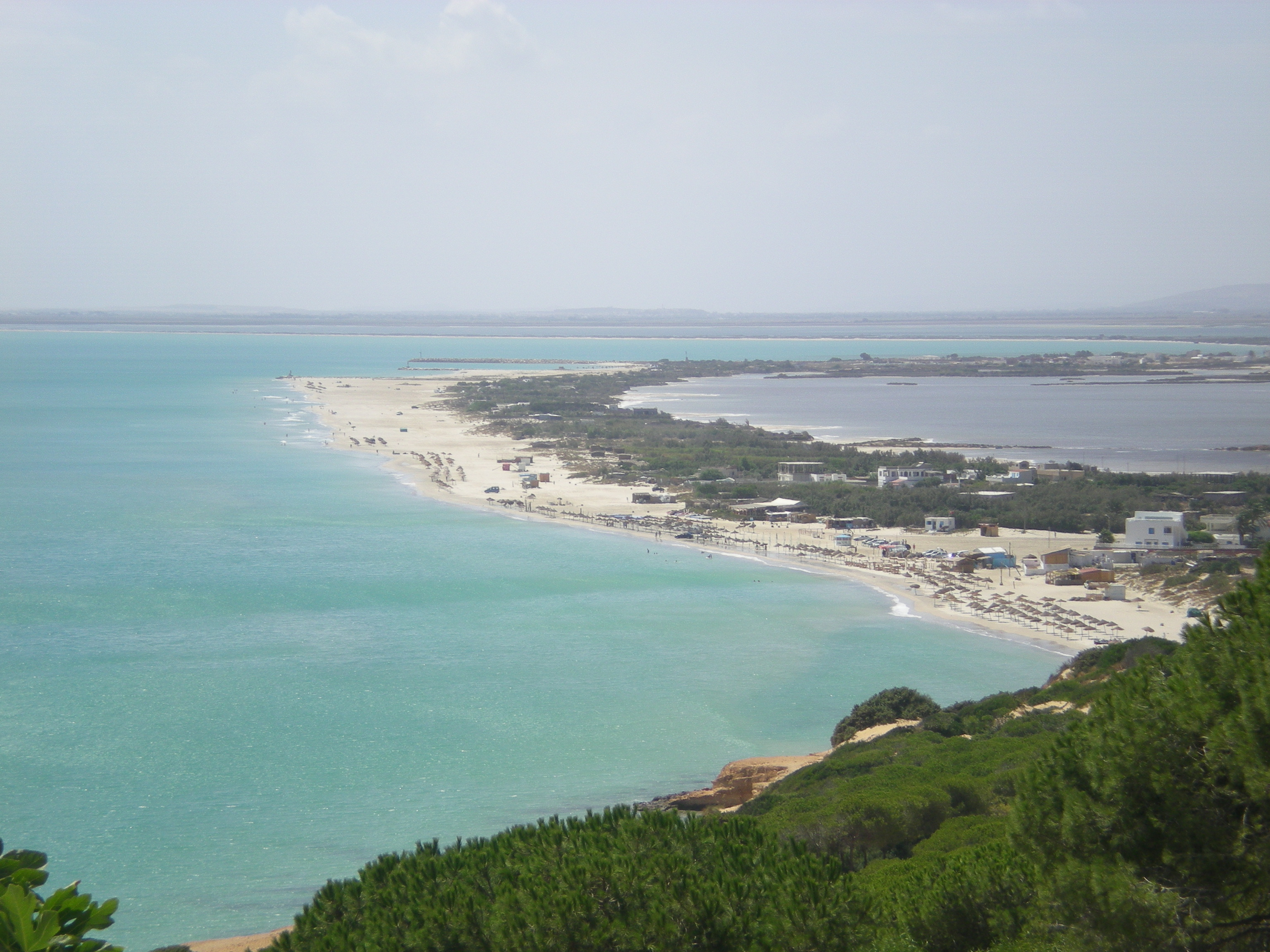 Beach panoramic of Sidi Ali El Mekki (Lagoon of Sidi Ali El Mekki is to the right), Tunisia